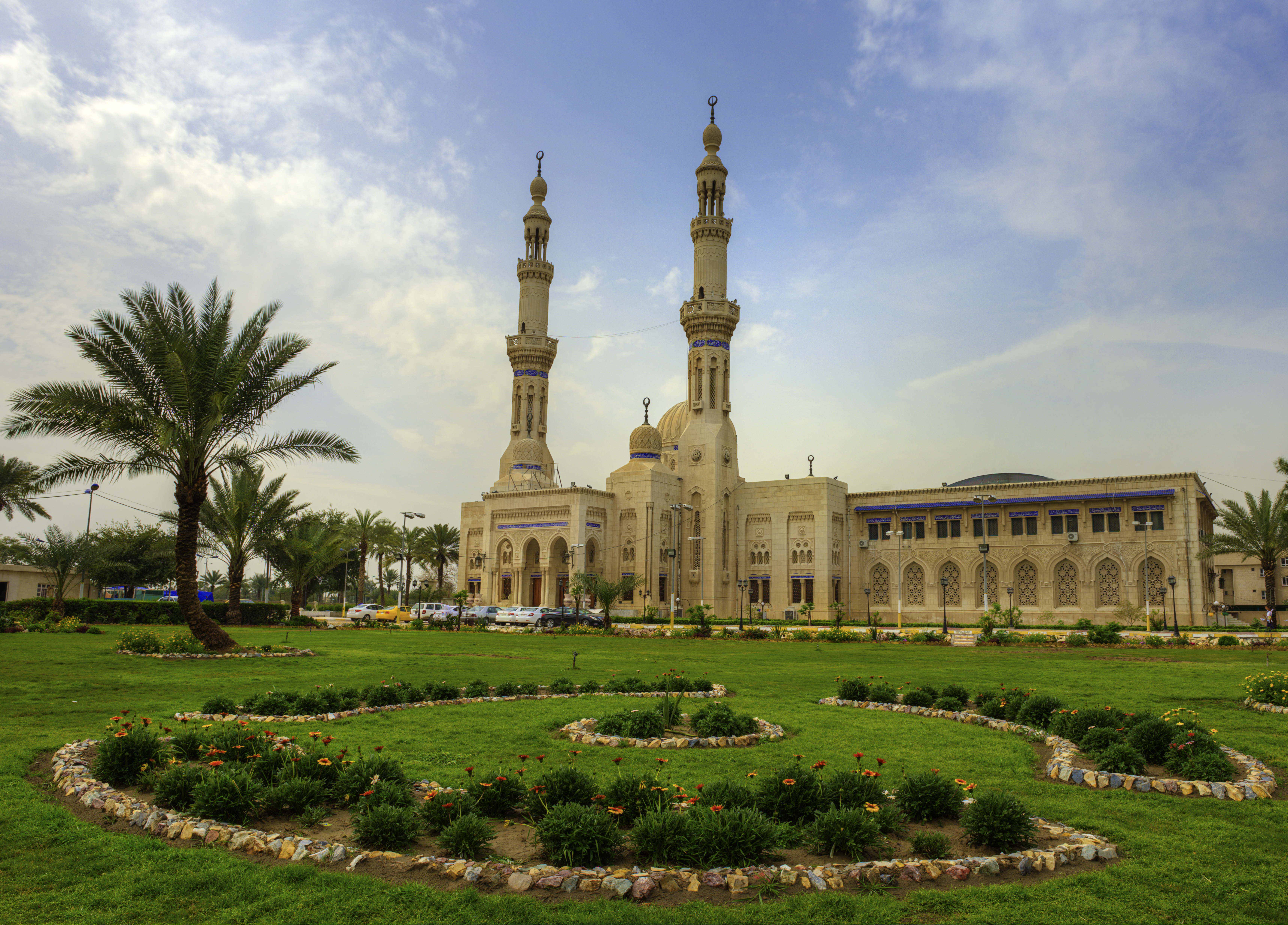 Mosque of Um al-Tabboul in Baghdad, Iraq